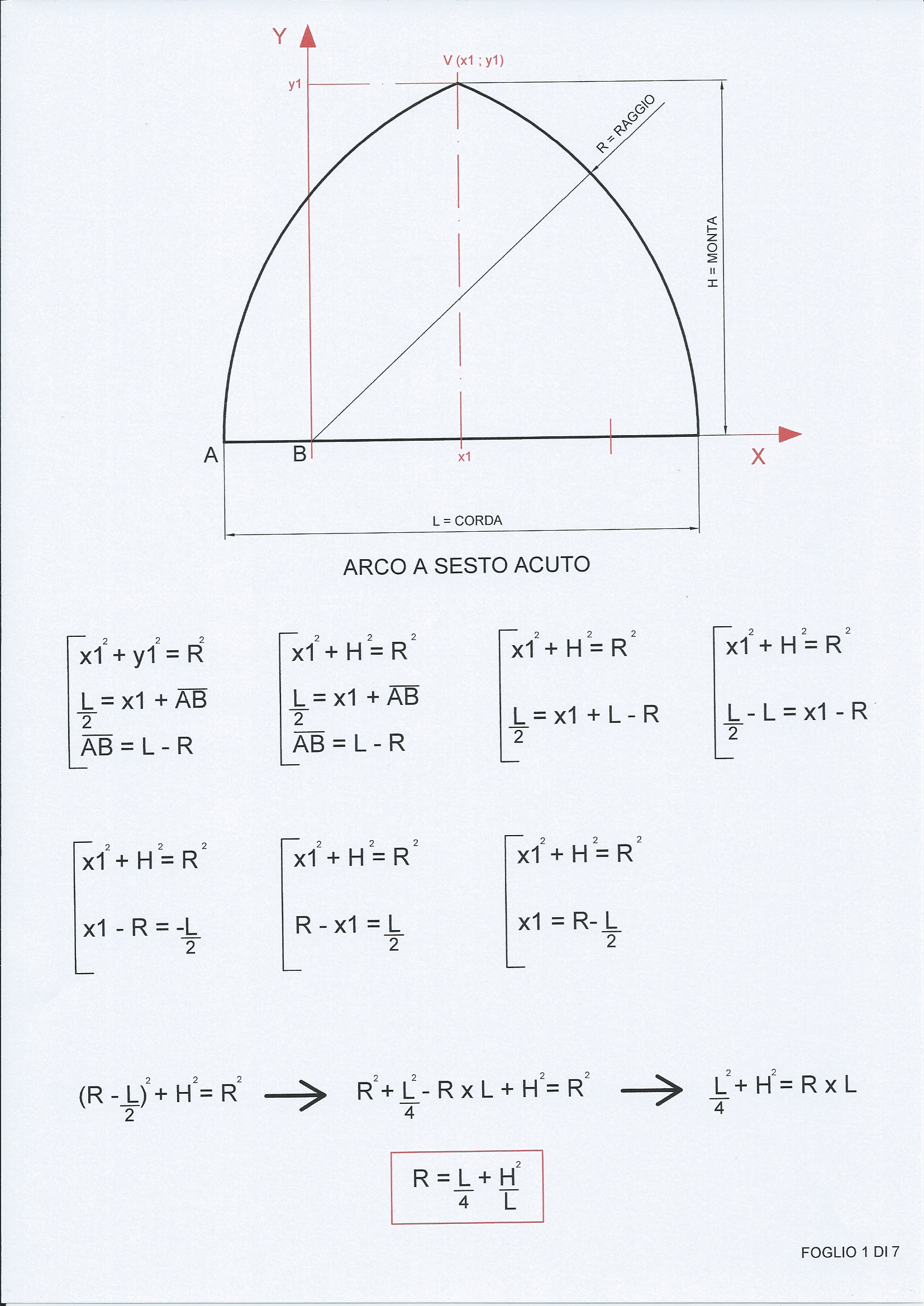 Equazione di un arco a sesto acuto